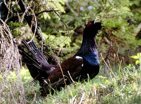 Capercaillie, wood grouse, mountain cock.